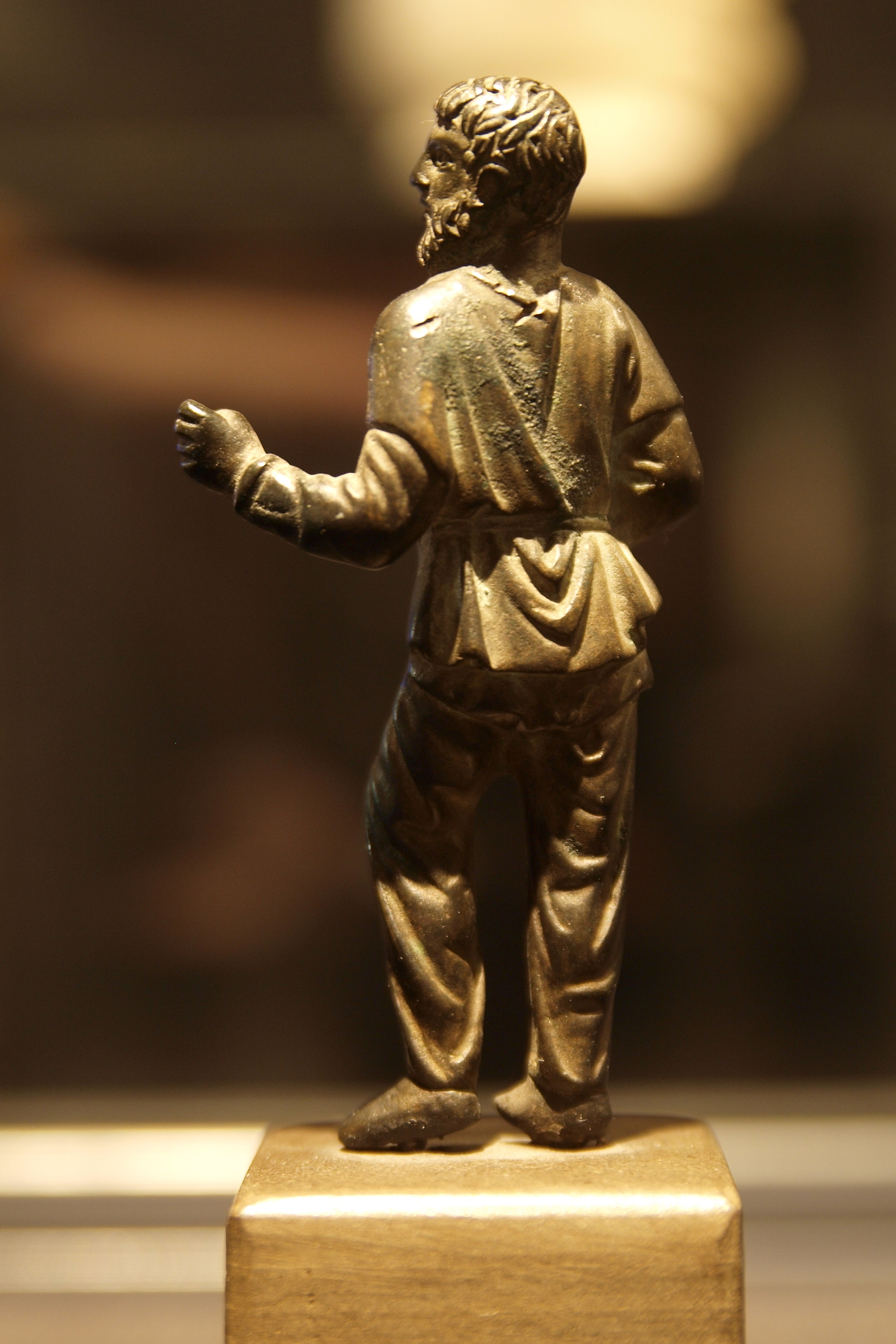 Roman bronze figurine of a German wearing a full beard, characteristic trousers and a tunic. Dating to 2nd century A.D. Baden-Württembergisches Landesmuseum, Stuttgart, Germany, collection Oberlinningen, inventory no. 3.363.